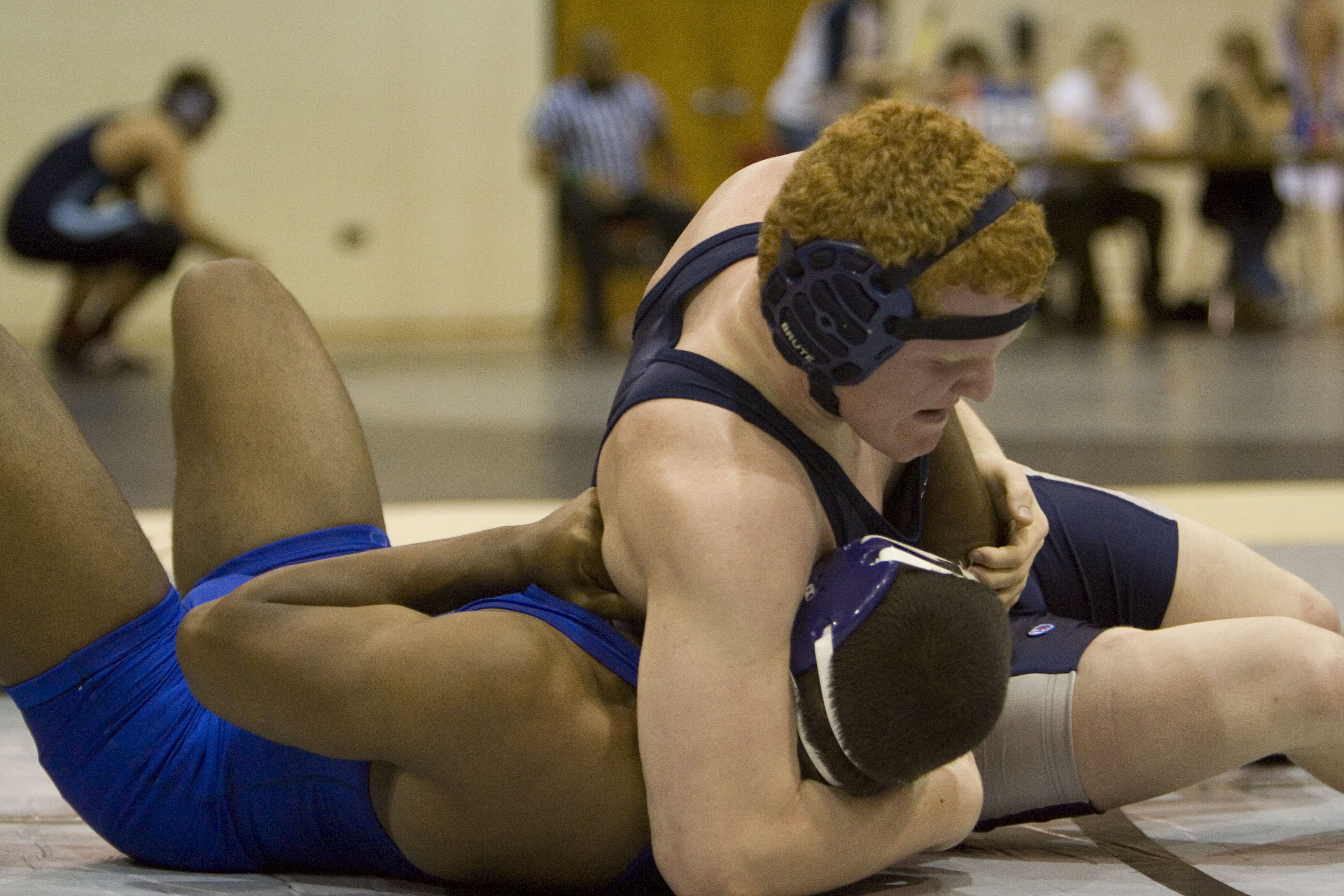 Two high school students wrestling (collegiate, scholastic, or folkstyle) in the United States.